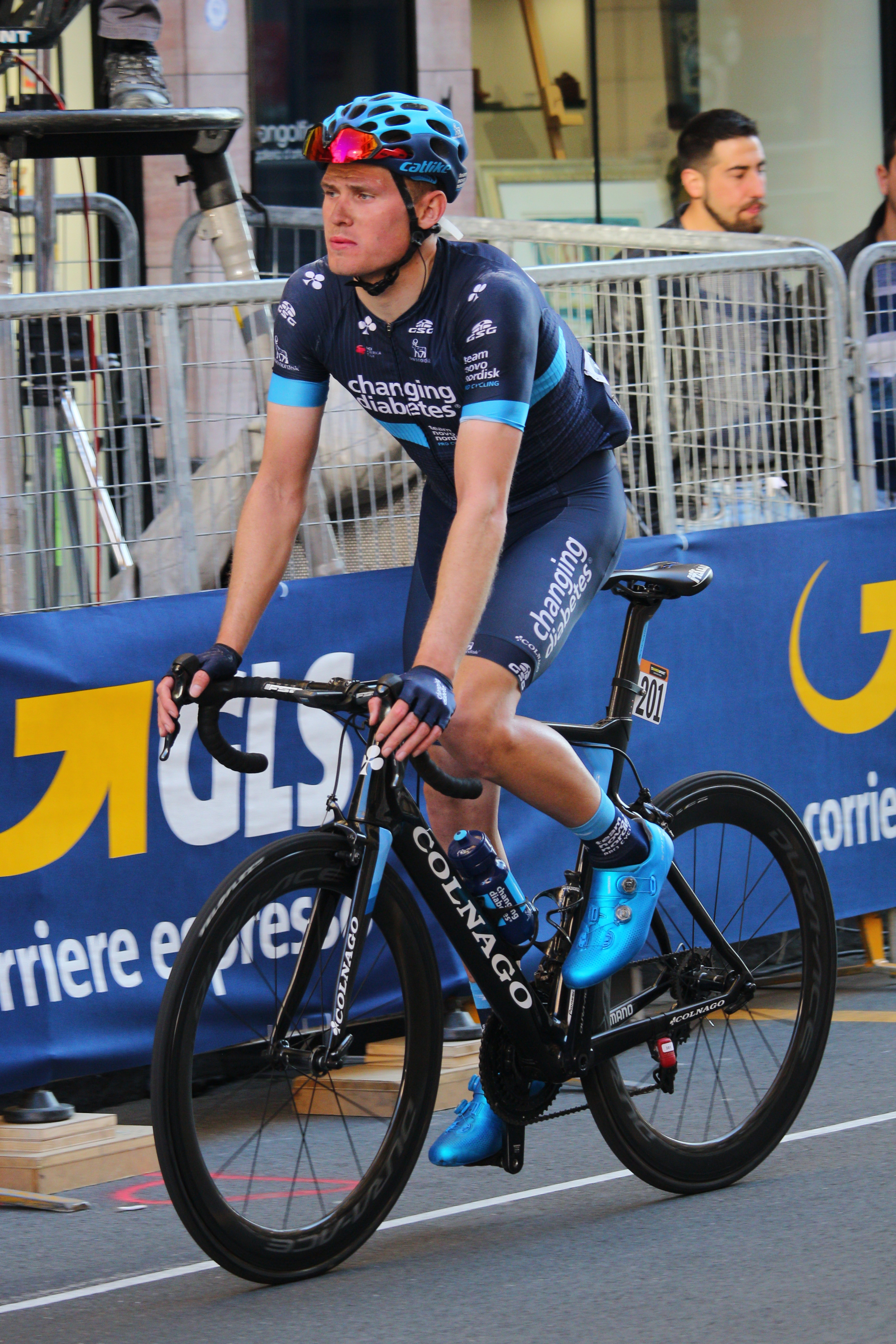 British cyclist Sam Brand in Sanremo